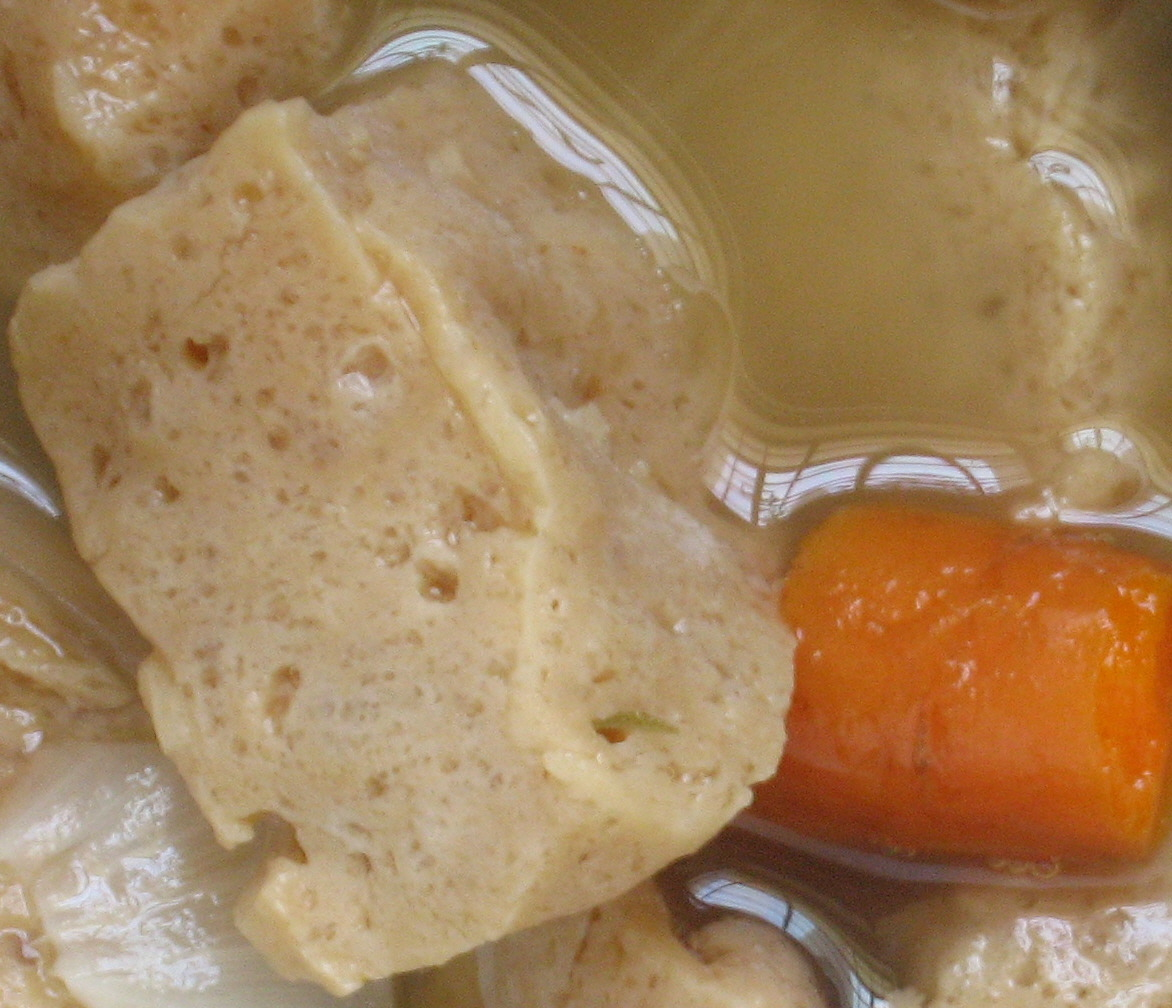 Close-up of a piece of homemade seitan made from pure gluten flour, and cooked in broth in a pressure-cooker.